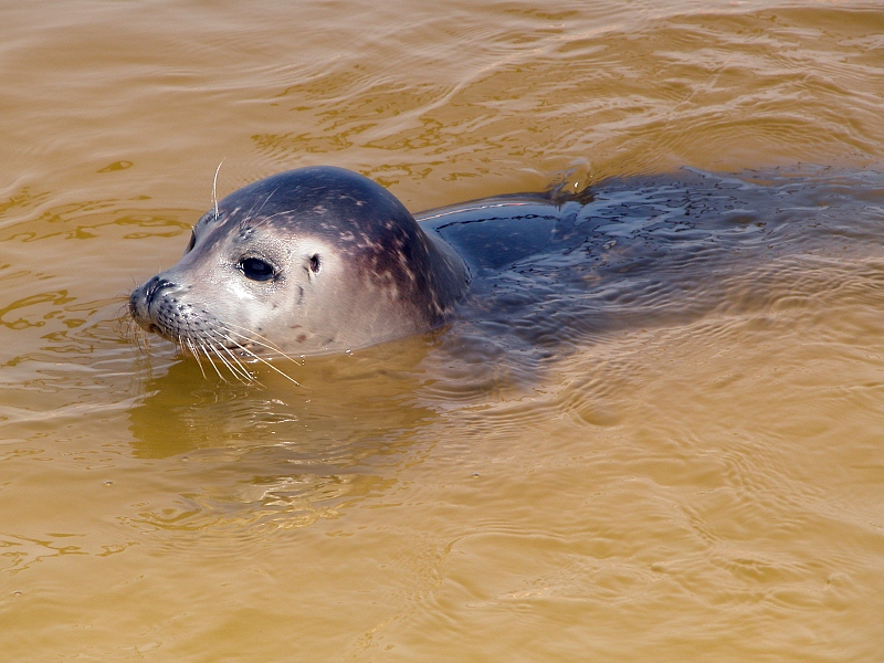 Phoca vitulina, Sankt Peter-Ording. Germany